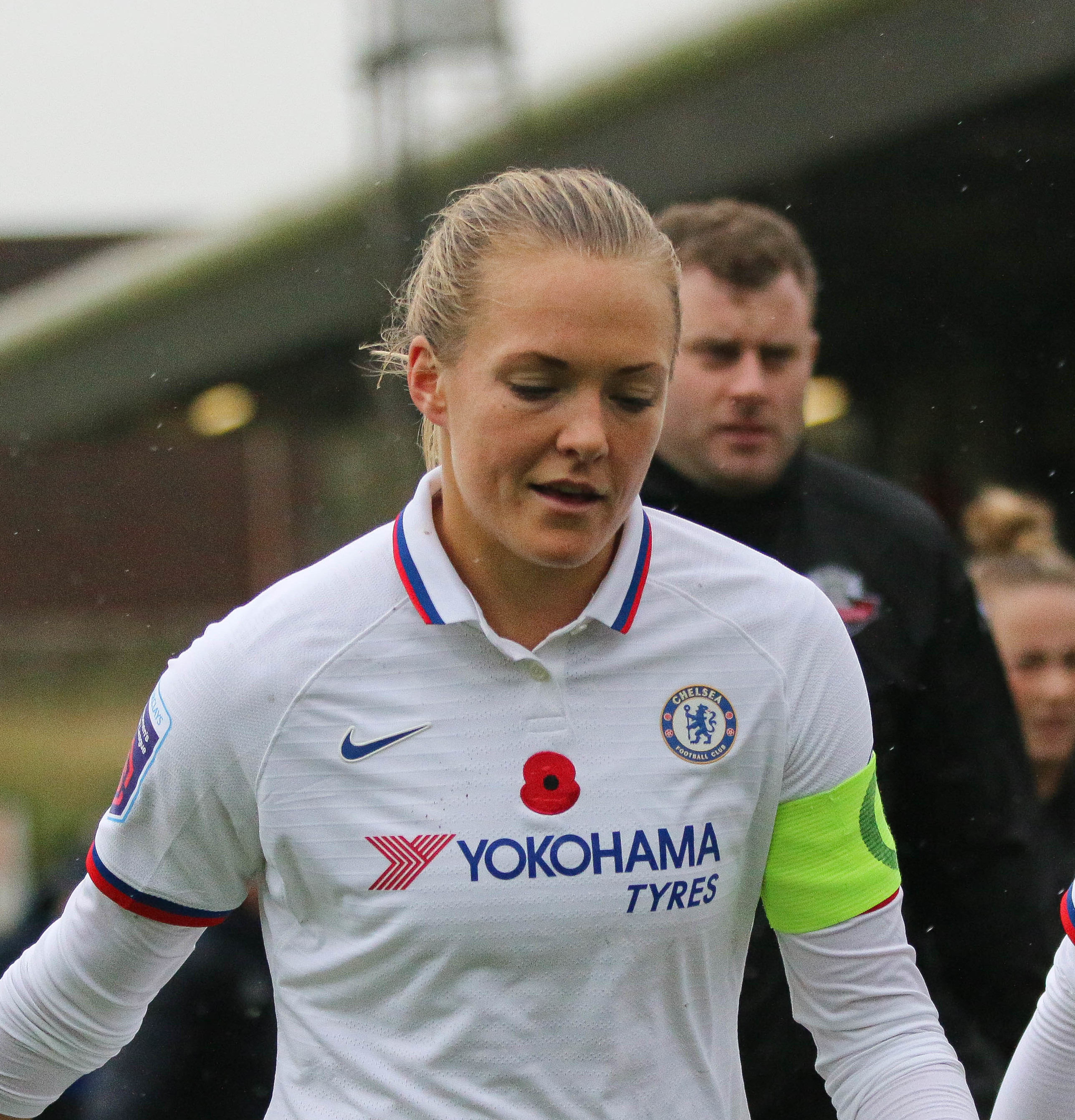 Lewes FC Women 1 Chelsea Women 2 Conti Cup 02 11 2019-270.jpg